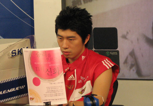 Lim Yo Hwan in 2006